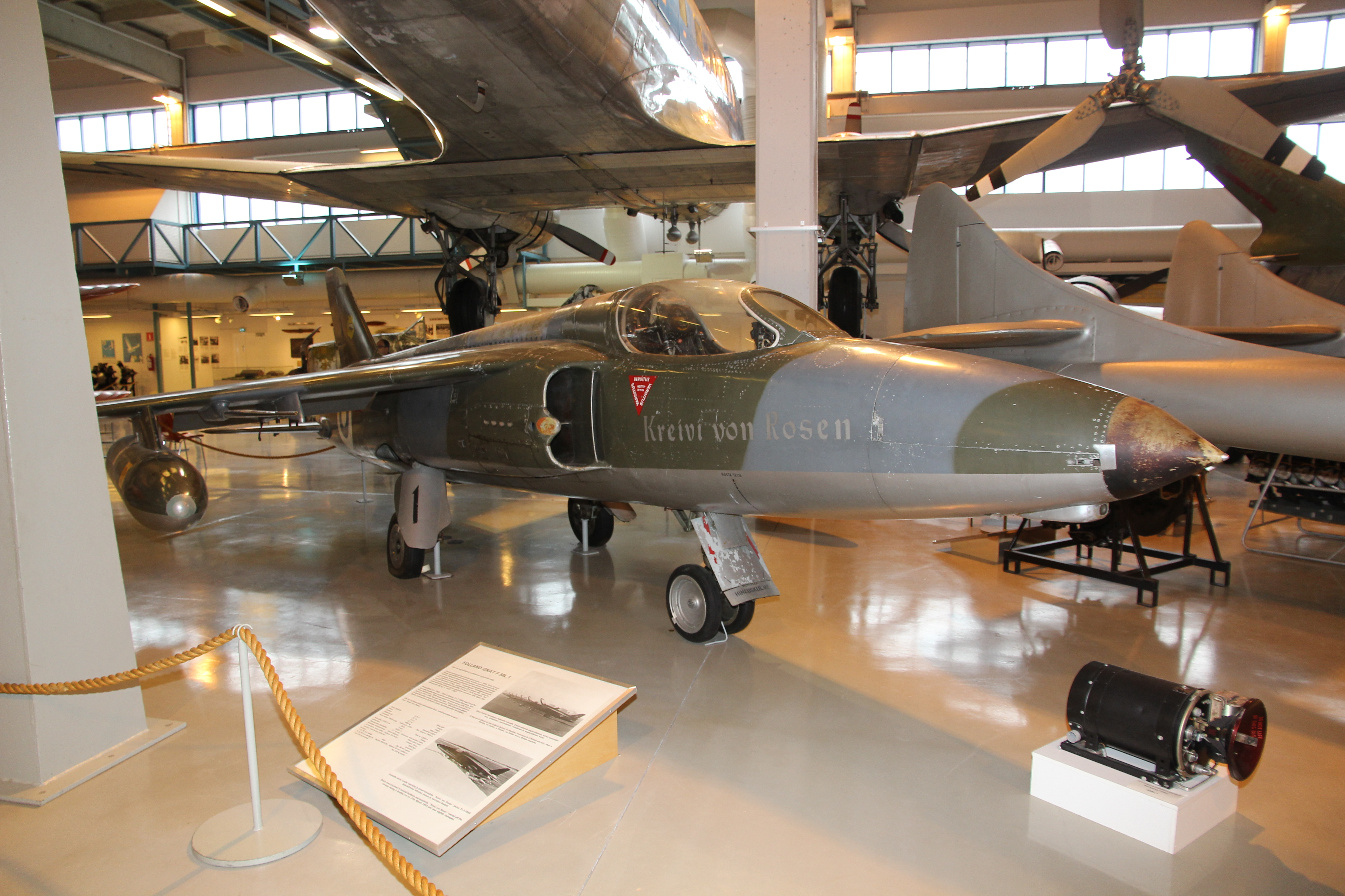 Folland Gnat Mk.1 fighter GN-101 "Kreivi von Rosen" (Count von Rosen) in Aviation Museum of Central Finland.